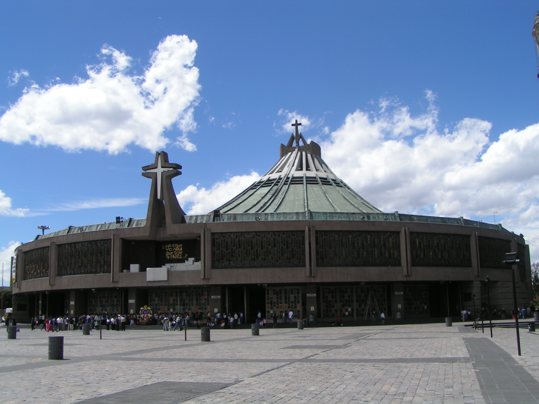 Description: Basilika of Our Lady of Guadalupe (new), Mexico City Source: Picture taken by Jan Zatko, March the 16th, 2005